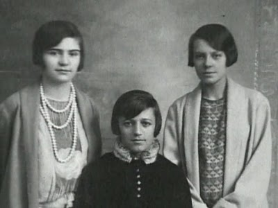 Adopted daughters of Mustafa Kemal Atatürk; left to right: Zehra Aylin (1914 - 1935), Rukiye Erkin (1911 - 1995), and Sabiha Gökçen (1913 - 2001).